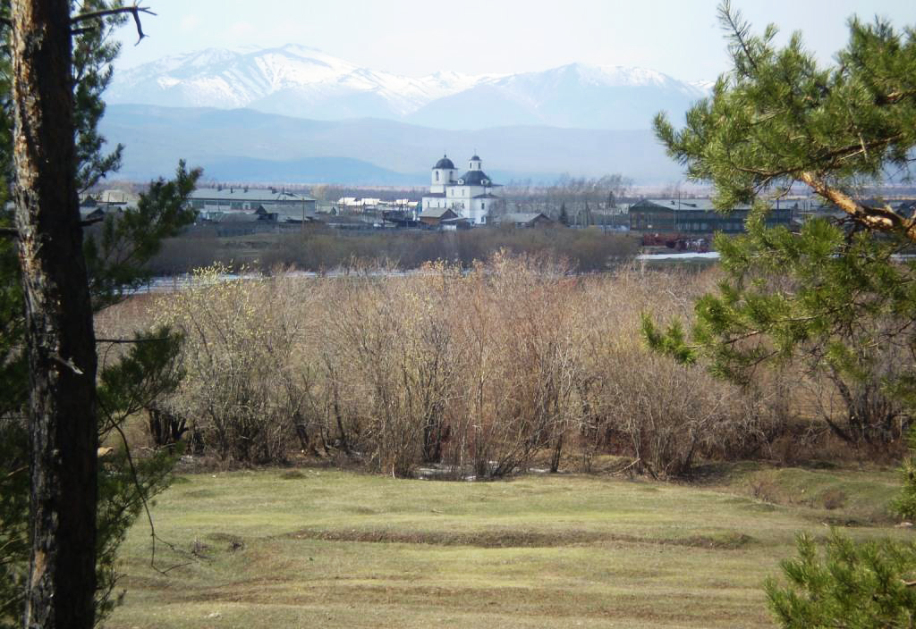 Chitkan Village